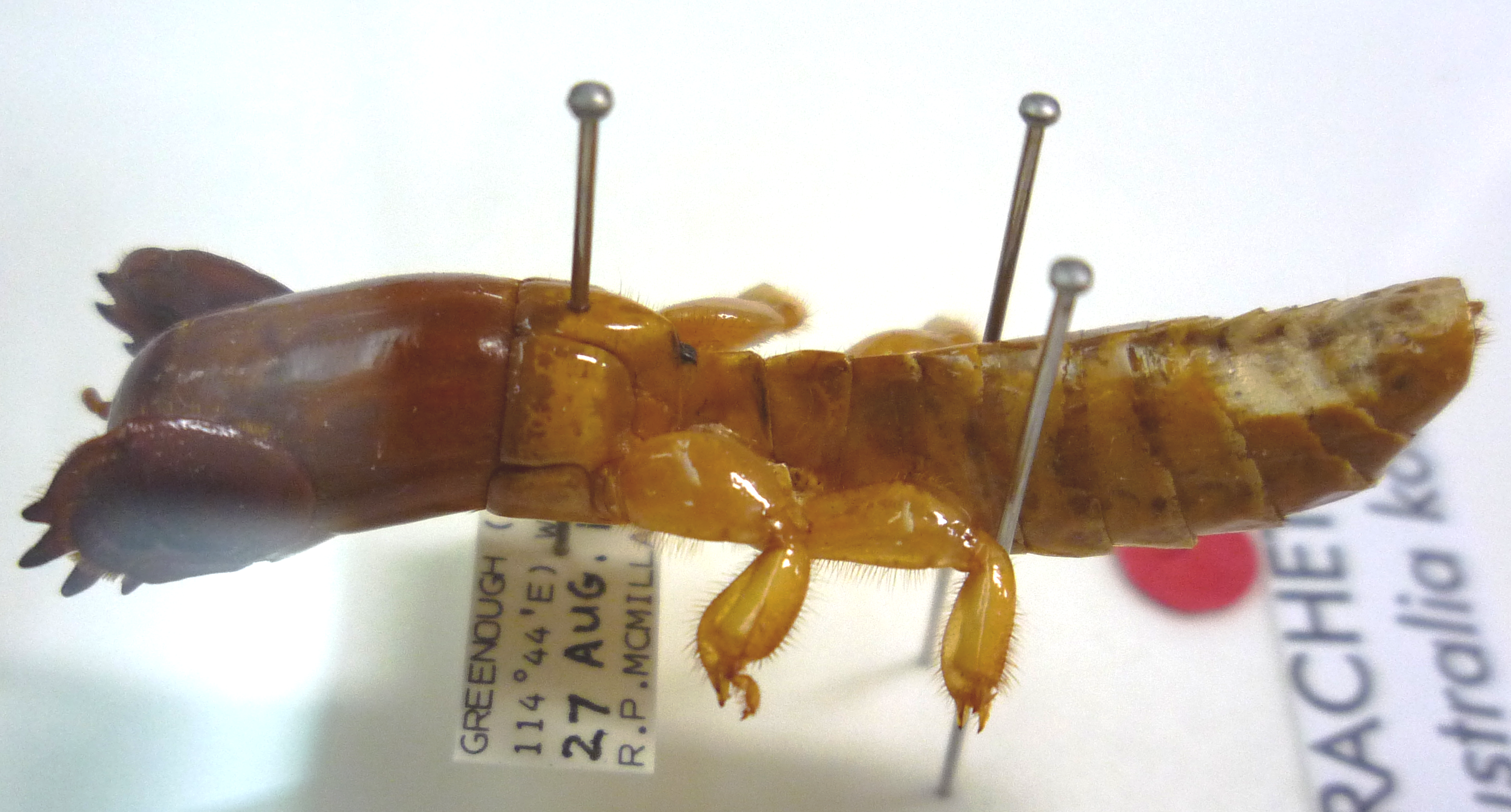 Sandgroper (insect) - specimen of Western Australian Museum